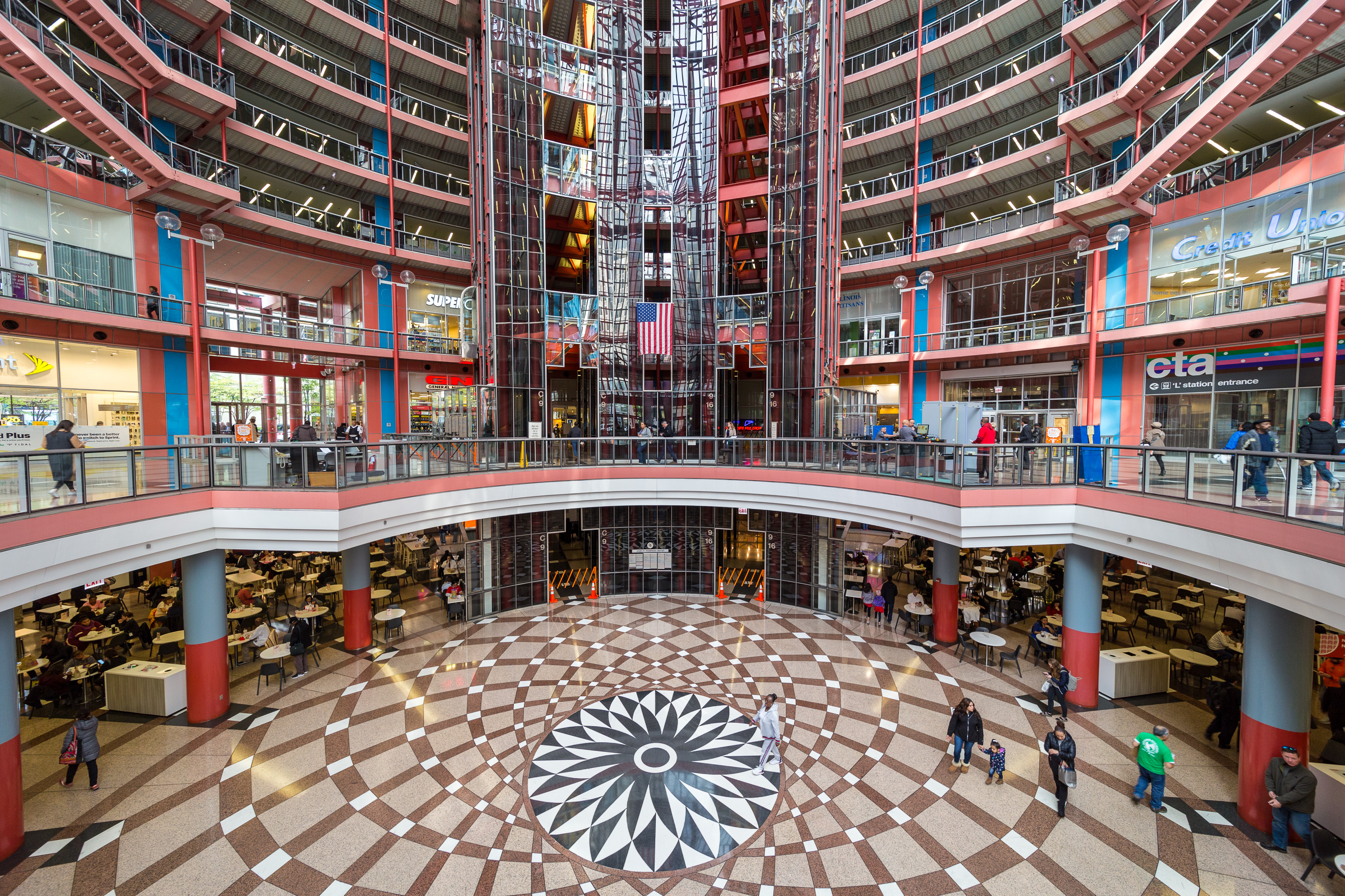 Ultrawide view of the immense atrium of the James R. Thompson Center, 100 W. Randolph Street, Chicago.